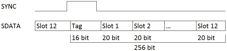 Timing of the Sync line and structure of a frame